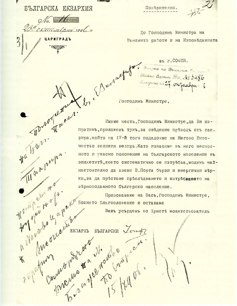 Letter from Joseph I of Bulgaria to Dimitar Stanchov, 23 October 1906